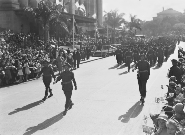 Members of the Australian 2/9th Infantry Battalion march past Brisbane City Hall during the 7th Division's march through the city, 8 August 1944.